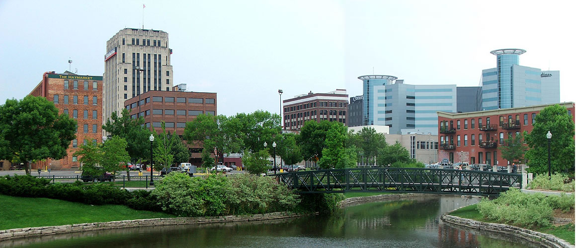 Looking southwest from N. Edwards Street in downtown Kalamazoo, Michigan. Round-topped towers are the Radisson Plaza hotel.